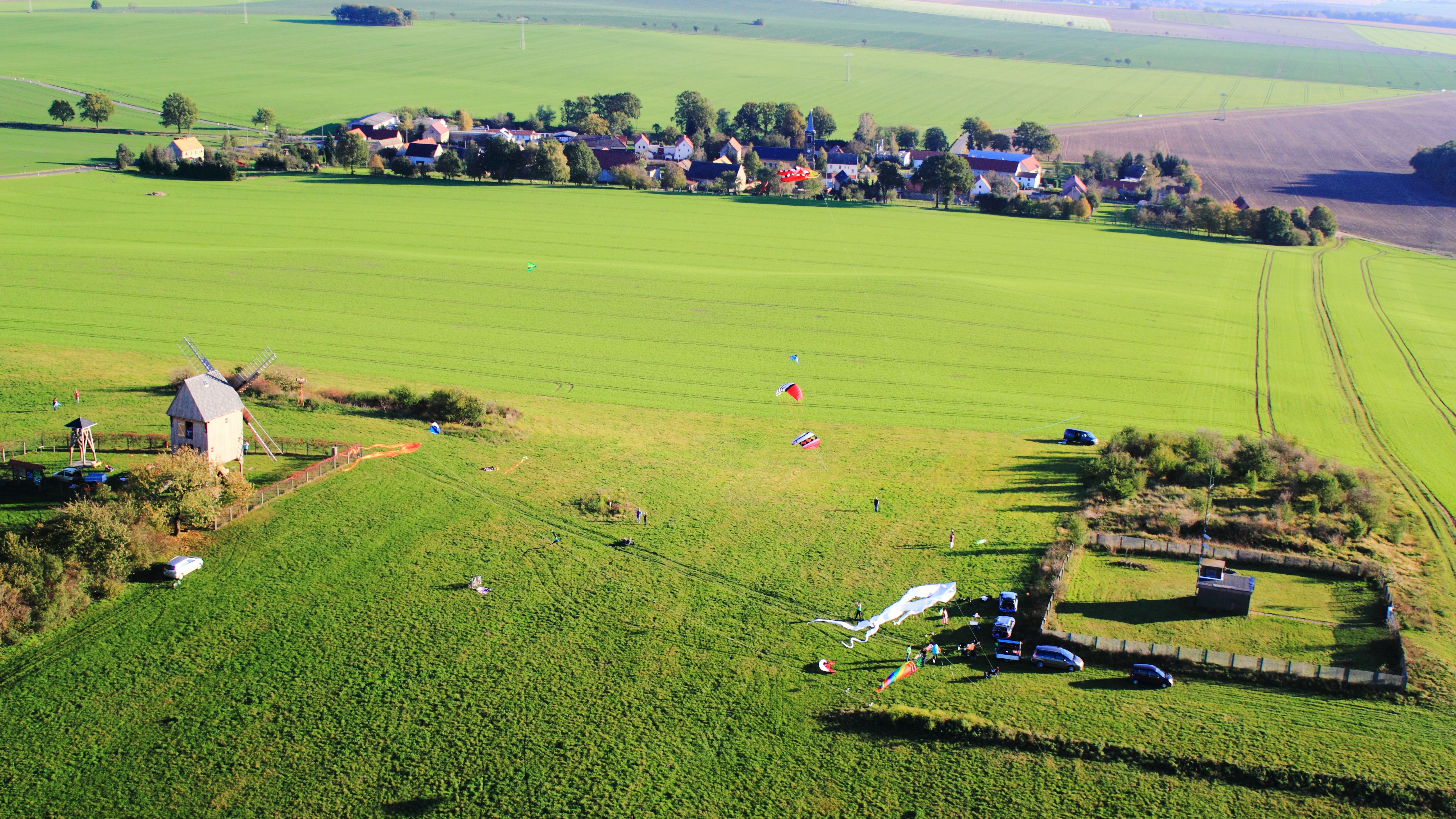 KAP (Kite Aerial Photography)